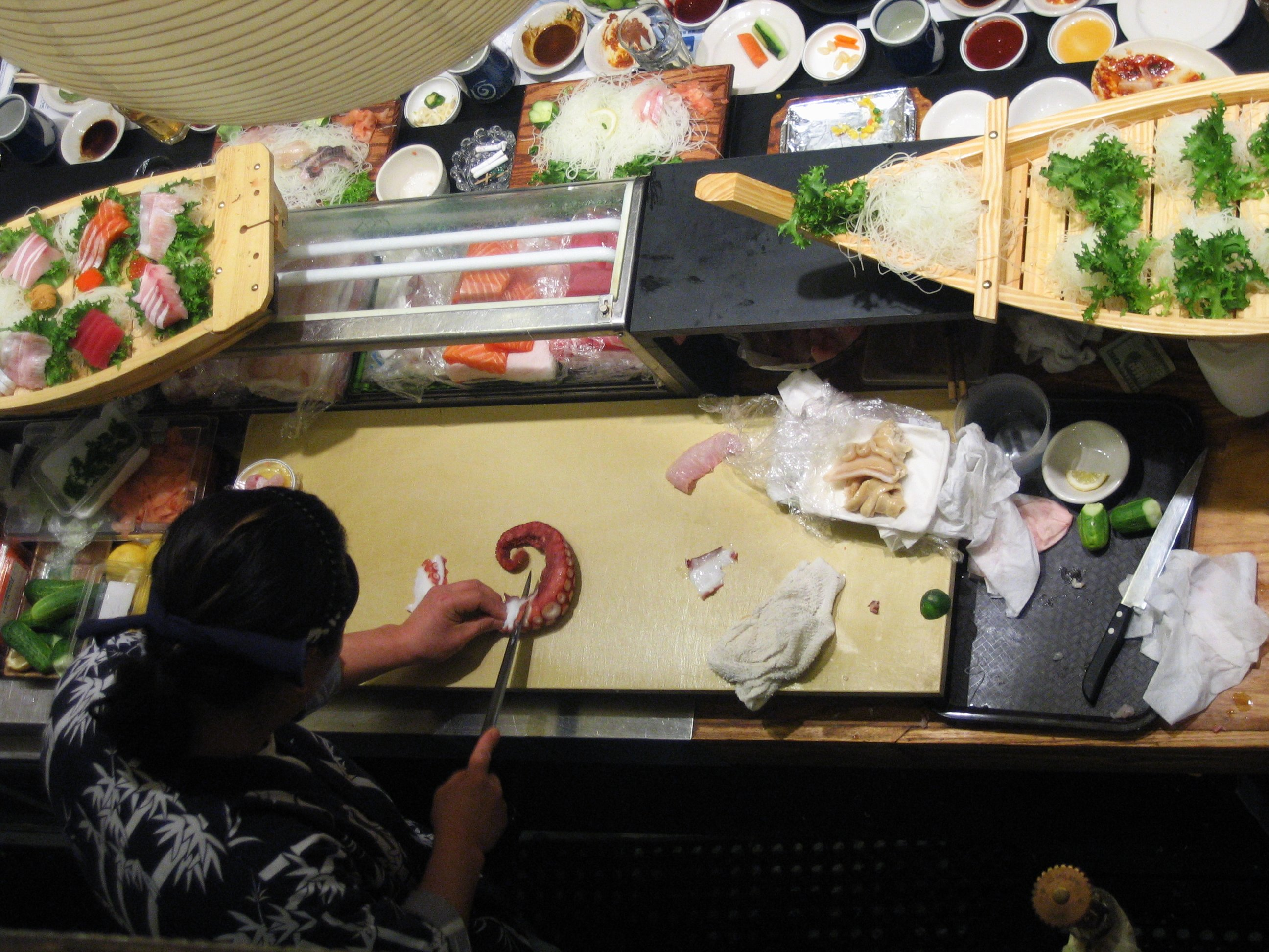 Sushi chef preparing octopus sashimi in a busy restaurant, December 2005. Taken with digital camera, increased contrast +15 in GIMP 2.2.